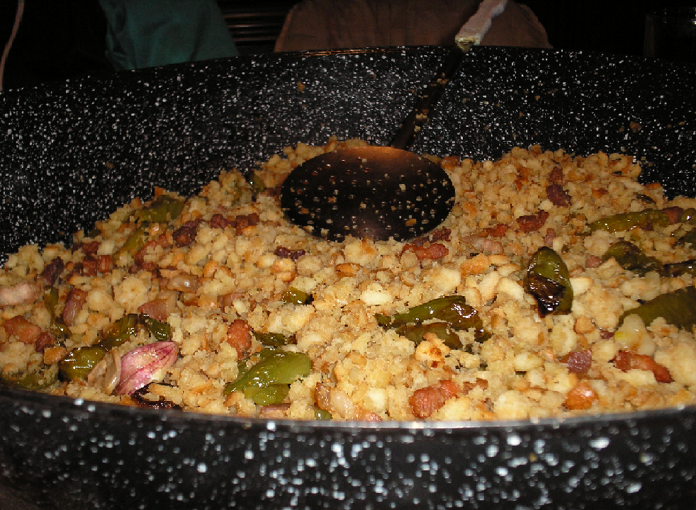 Migas Manchegas (typical spanish food)